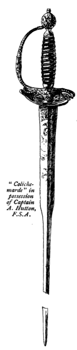 Colichemarde in possession of Captain Alfred Hutton FSA (1839-1910)